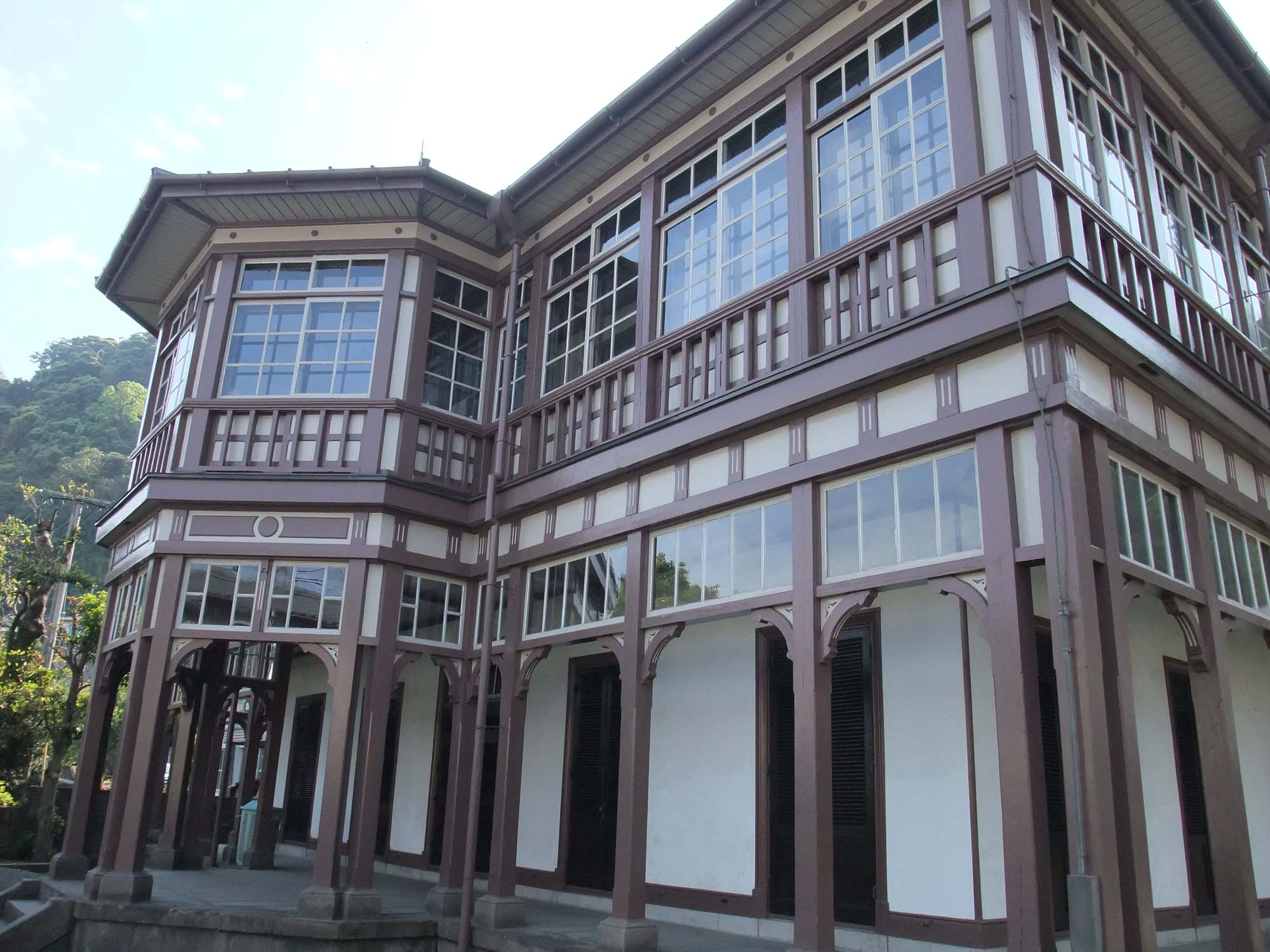 Kagoshima Ijinkan